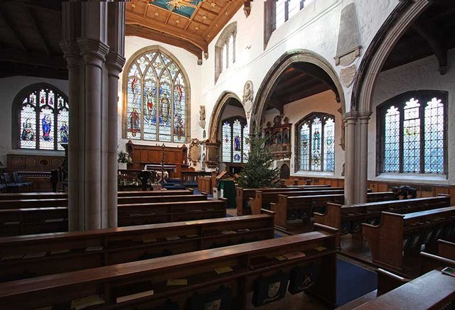 St Olave, Seething Lane, London EC3 - East end